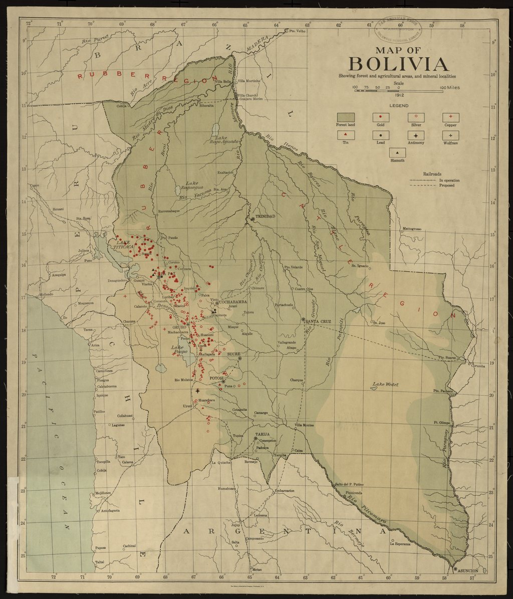 A 1912 map that shows some of Bolivia's natural resources